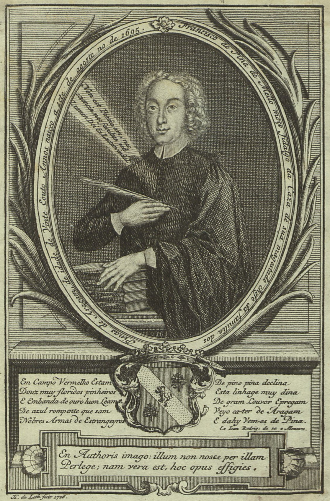 Francisco de Pina de Melo (1695-1773), Portuguese poet and writer